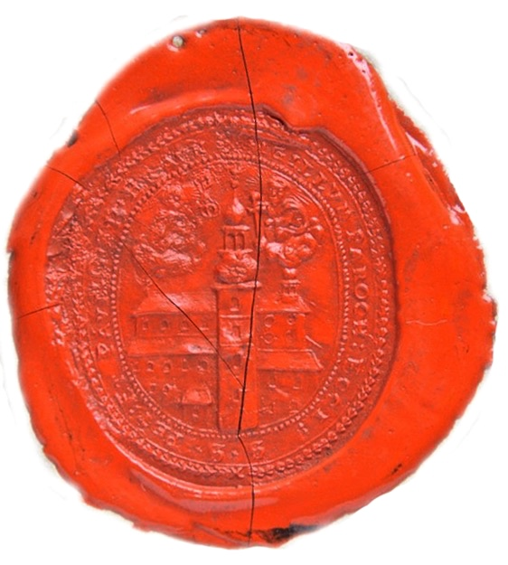 The Parish seal of the chapter St. Peter and Paul Church in Brno, 18th c.